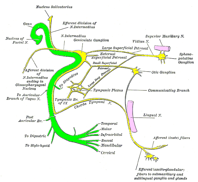 Plan of the facial and intermediate nerves and their communication with other nerves.